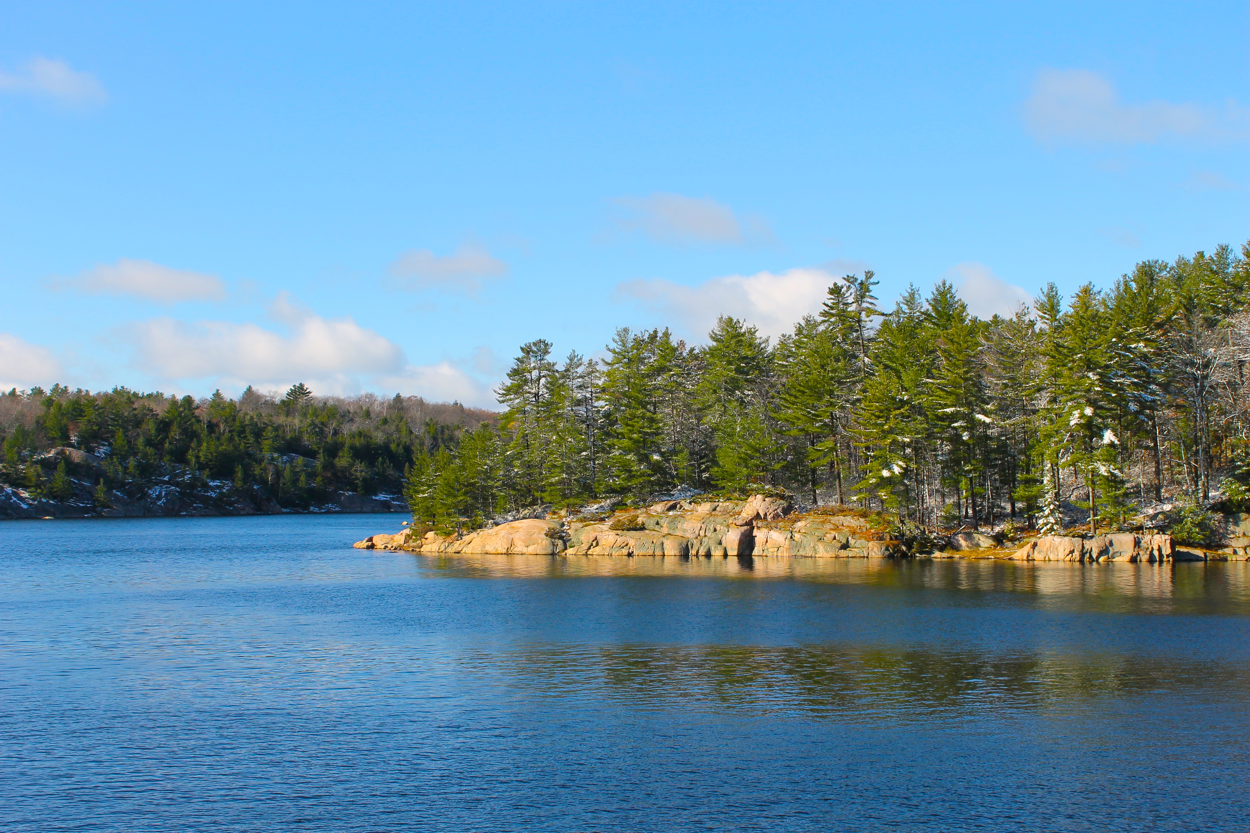 Taken from the south shore of George Lake in Killarney Provincial Park.